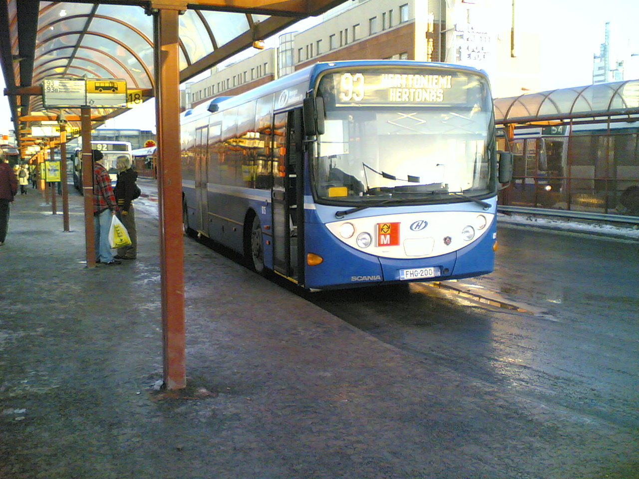 Helsingin Bussiliikenne Lahti Scala (with Scania chassis) bus (#615) on former line 93 at Itäkeskus showing the new colors of the company.